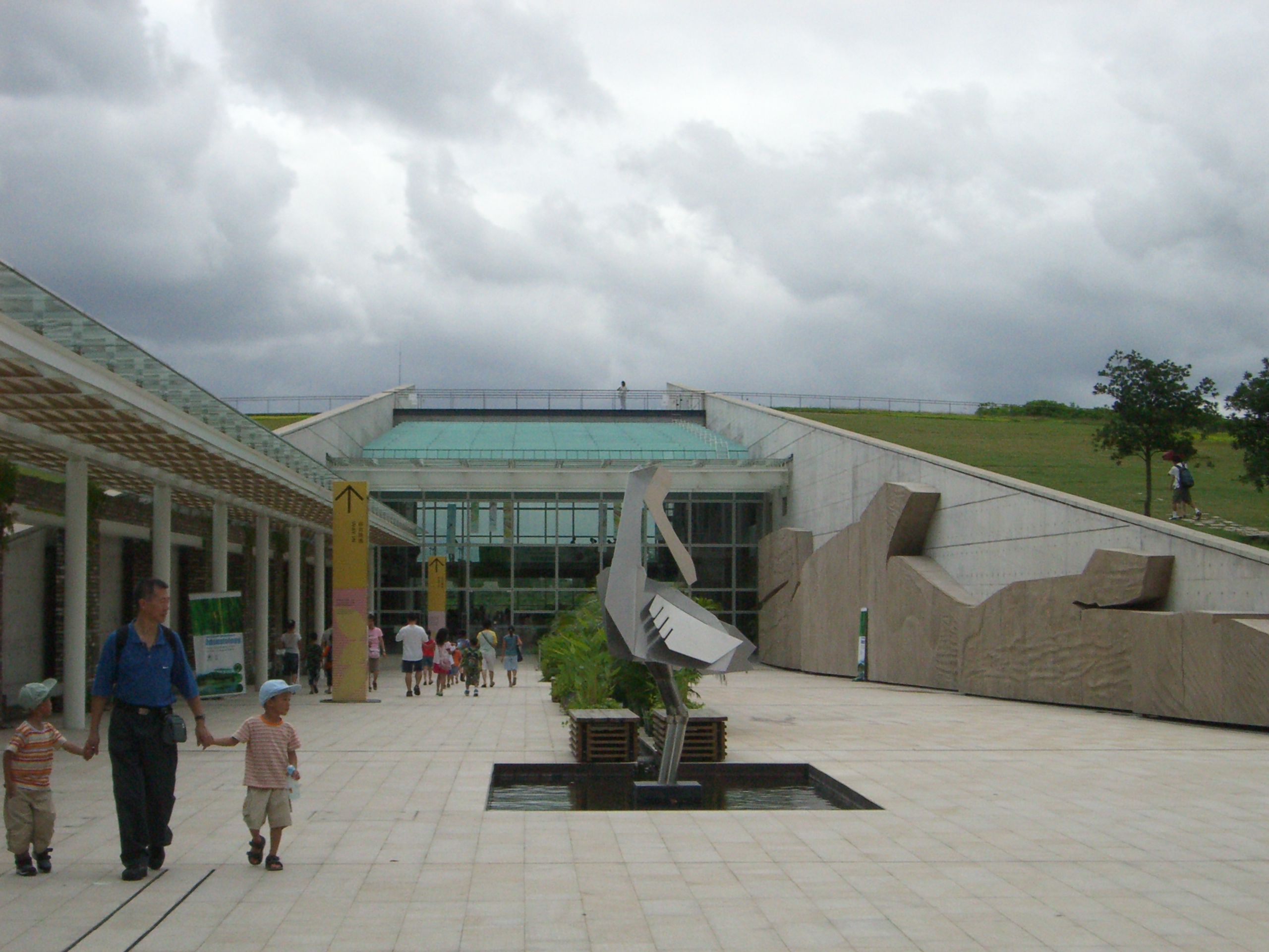 A picture of Hong Kong Wetlands Park taken by me.